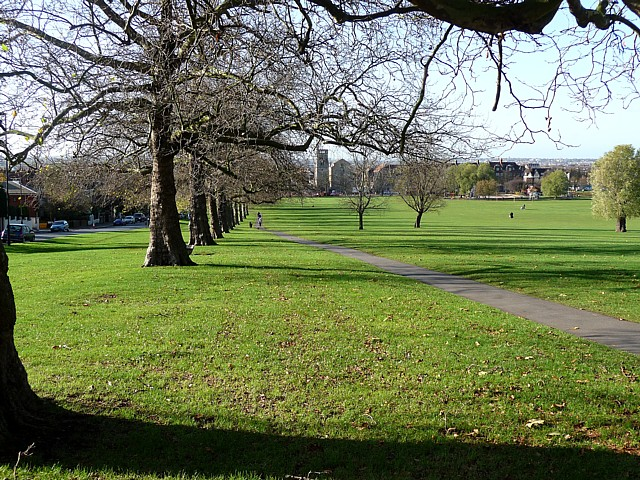 Streatham Common (5). Looking west along the line of trees towards Streatham High Road. The tower in the distance is that of Immanuel Church (1864-65, architect Benjamin Ferrey, closer view here: 26522).